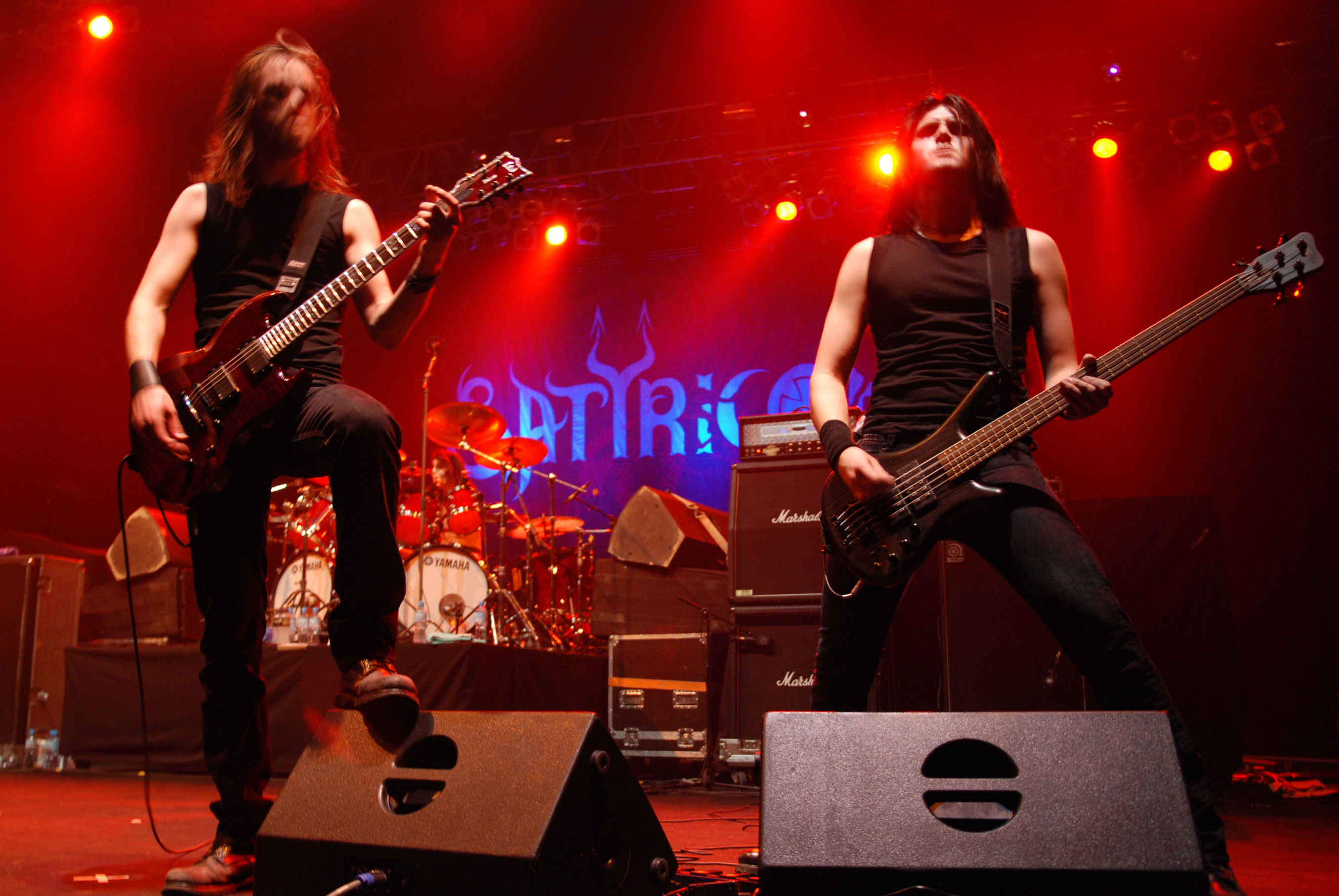 Satyricon during Metalmania 2008 festival